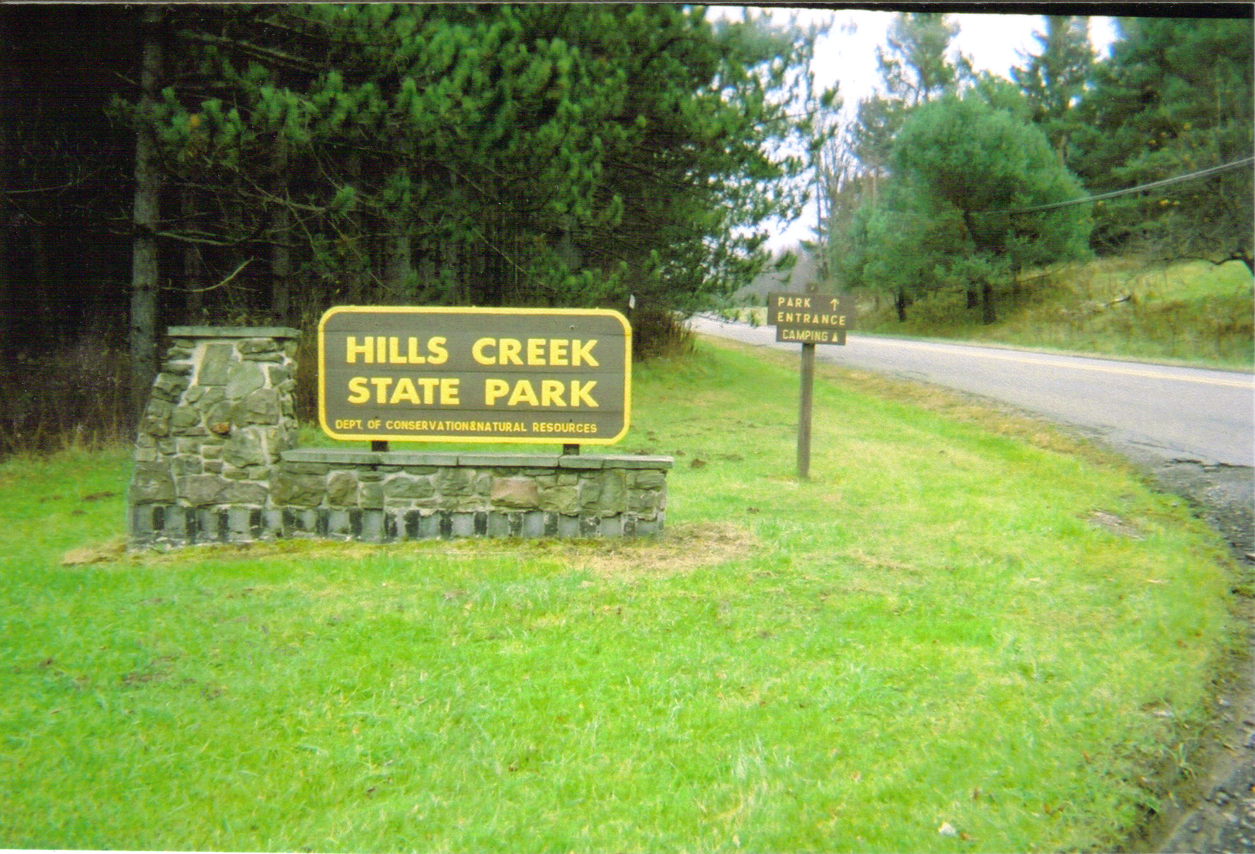 Entrance sign to Hills Creek State Park.